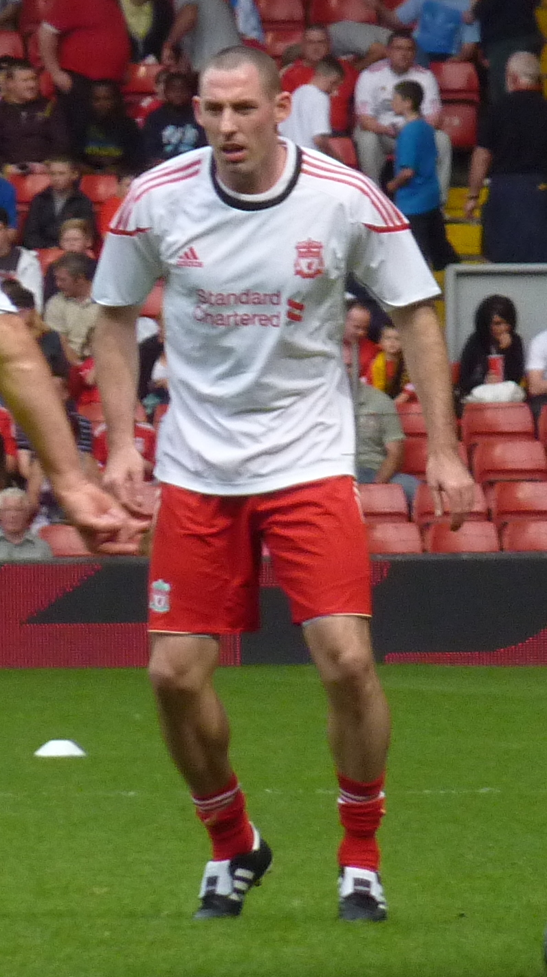 English football player, Stephen Wright, before Jamie Carragher Testimonial Match.